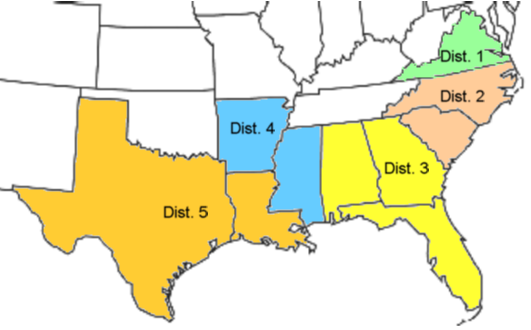 US Reconstruction military districts